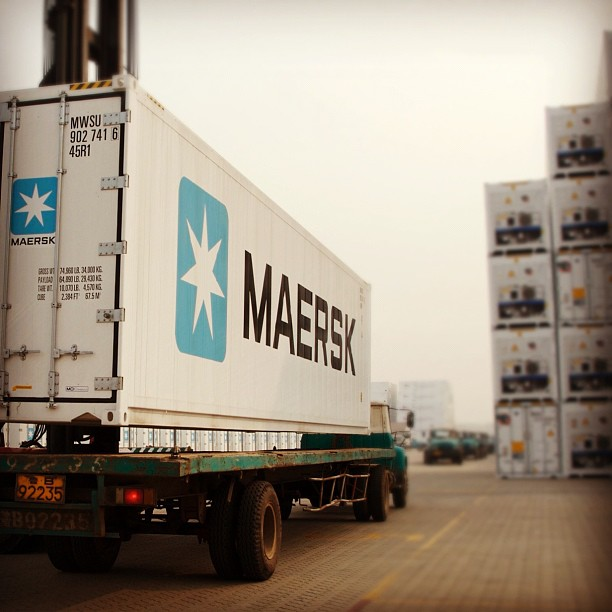 Reefer containers in Qingdao, China